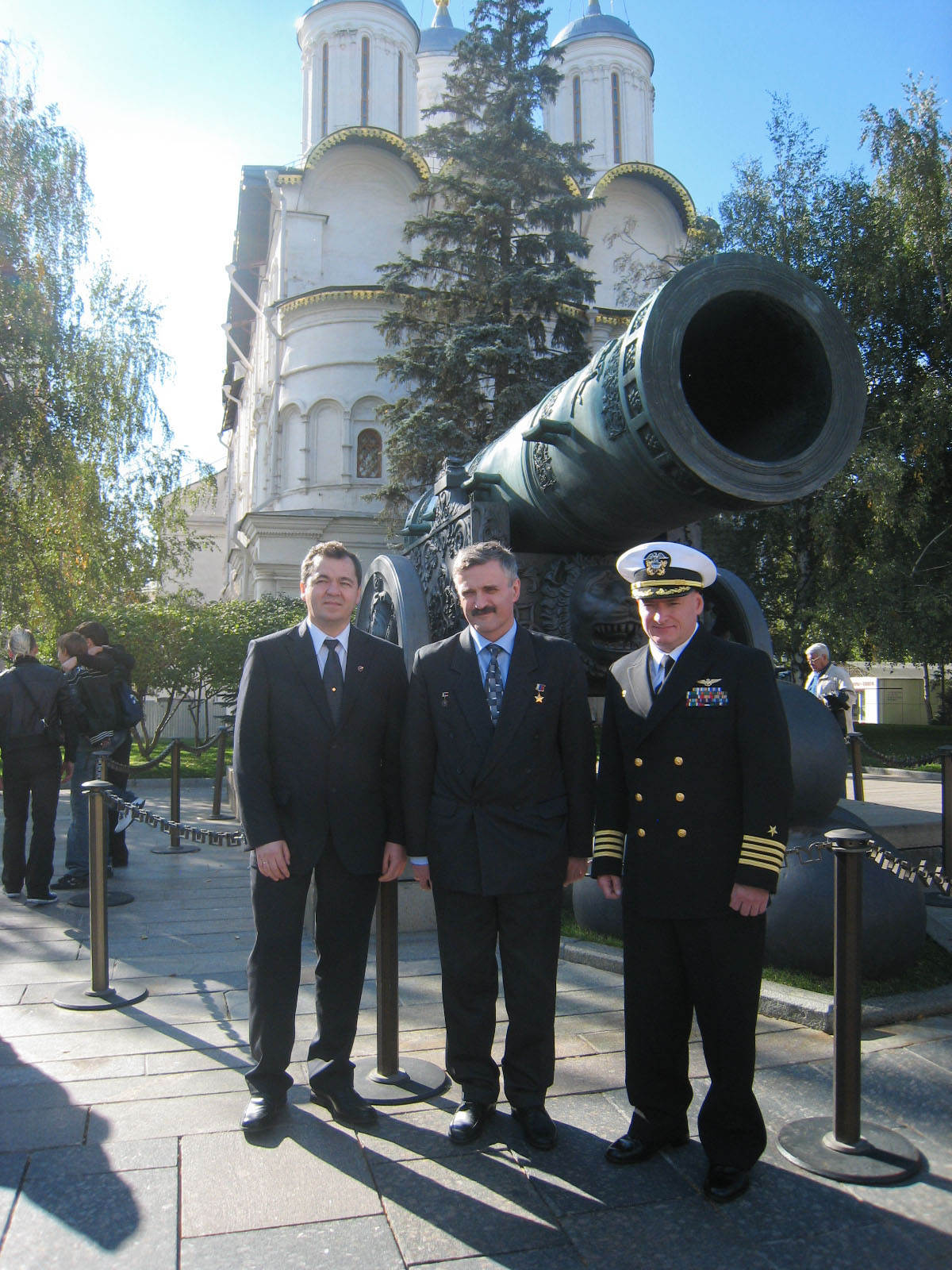 Russian cosmonauts Oleg Skripochka (left), Expedition 25 flight engineer, and Alexander Kaleri (center), Soyuz commander, along with NASA astronaut Scott Kelly (right), flight engineer, pose for pictures in front of the Tsar Cannon at the Kremlin in Moscow Sept. 17, 2010 as part of the ceremonial activities leading to their launch Oct. 8 (Kazakhstan time) in the Soyuz TMA-01M spacecraft for a 5 ½ month stay on the International Space Station.